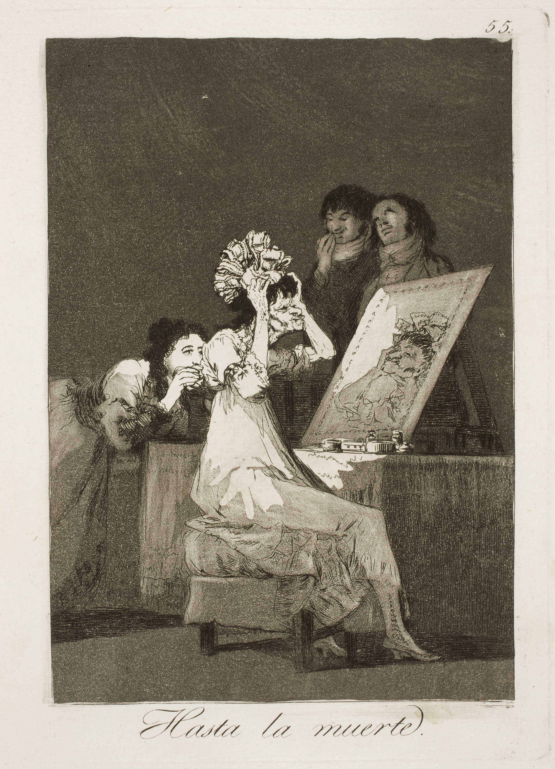 Caprichos No. 55